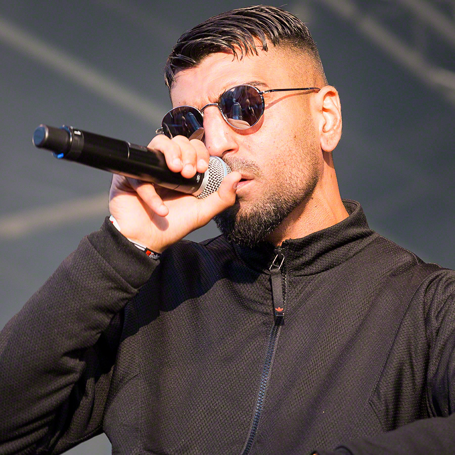 S!vas at the minor stage during Stavernfestivalen in Stavern on 09. July 2016. Lineup:Sivas Torbati (vocal)